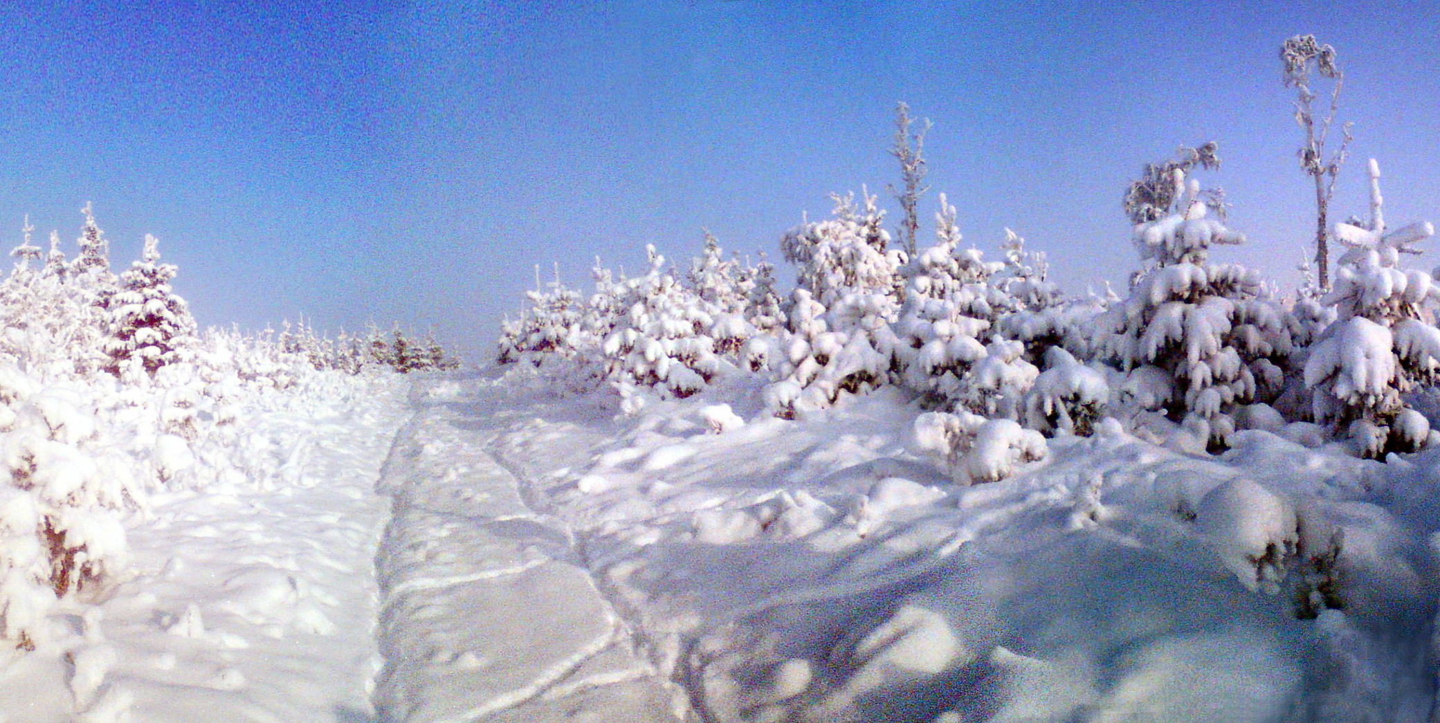 Mountain Malá Stolová in the Moravian-Silesian Beskids